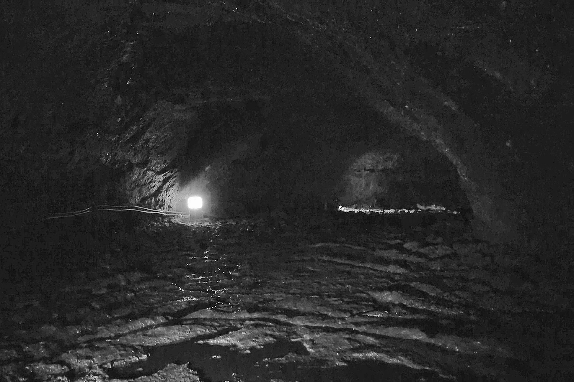 Inside the Lake Saiko Bat Cave B-Point